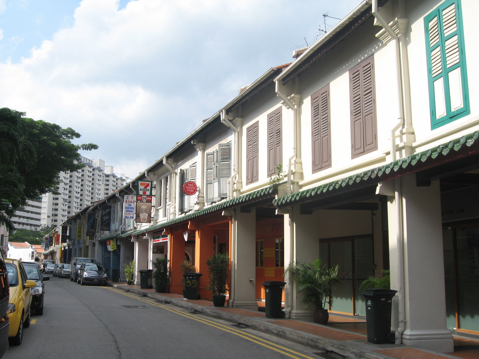 Shophouses along Duxton Road.